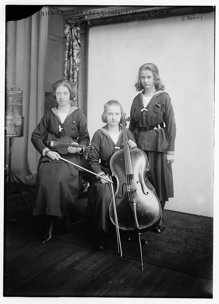 Title: Hilger sisters (Mary, Elsa, Margaret) Abstract/medium: 1 negative : glass ; 5 x 7 in. or smaller.